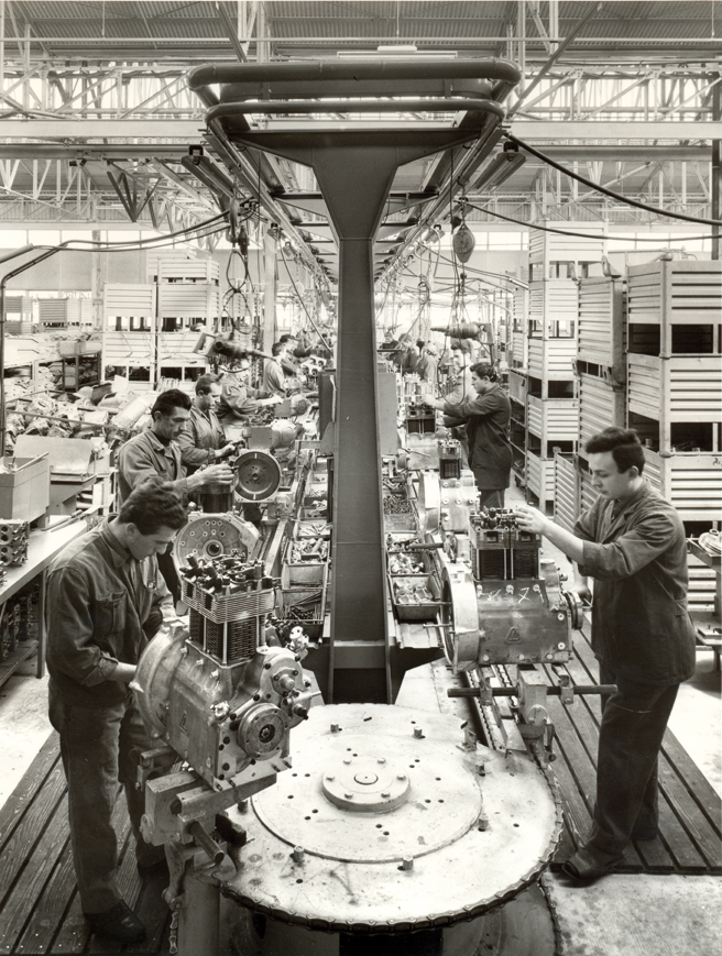 At the end of the 1970s, Lombardini's production reaches huge figures. The picture shows an assemply line.